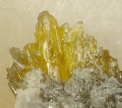 Warikahnite Locality: Tsumeb, Otjikoto (Oshikoto) Region, Namibia (Locality at ) Size: thumbnail, 0.6 x 0.4 x 0.1 cm Warikahnite A VERY RARE example of this rare arsenate known from just a handful of specimens! The piece has gemmy yellow crystals of exquisite form. Only a few specimens have turned up for sale in recent years, at any level, good or bad. Although it seems smallish, this is actually an excellent example of the species and highly aesthetic as well.